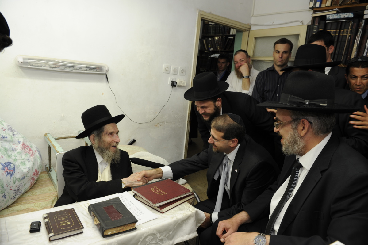 U.S. Ambassador Dan Shapiro visit the city of Beni Brak U. S Ambassador Dan Shapiro and Ms Julie Fisher made a pre-Rosh Hashanah visit to Bnei Brak. There they met with Mayor Rabbi Yaakov Asher and other city officials and learned first-hand about the economic developments, challenges and opportunities taking place in Bnei Brak within the ultra-orthodox communities. They took the opportunity to meet Rabbi Aharon Leib Steinman, prominent ultra-orthodox spiritual leader of the Lithuanian communities, at his residence. There they heard Rabbi Steinman praise America, echoing the words engraved in the Statue of liberty, for opening its doors to ”the poor and needy”, that is what made America great, the land of the free. Following this meeting, the Ambassador and his wife toured Ateret Rachel Women’s Seminary, where they met, among others, the president of the seminary , Mrs. Zippi Yishai; the principal of the school, Rebbetzin Zvia Bukhris; and Rabbi Zemach Mazuz, the head of Kisse Rahamim Yeshiva, Bnei Brak. The school receives US funded grant for English language instruction. They entered a class and spoke to the students, and took questions, on the importance of learning English. Another highlight was their visit to Mayanei Hayeshua Medical Center, where they were welcomed by Dr. Moshe Rothschild, the founder and president of the medical center, and Rabbi Gershon Lieder, CEO; and Dr. Motti Ravid the Medical Director; and many other senior doctors and staff. They got to see the premature baby wards and maternity wards, learning how the hospital combines medical care with strict ethical care to show the importance and holiness in saving human lives. Ambassador Shapiro ended the visit by shopping at a local deli and eatery on Rabbi Akiva Street. Behind the scenes Rabbi Moshe Eizen, CEO of Bnei Brak Development Fund, who helped make all the arrangements possible.